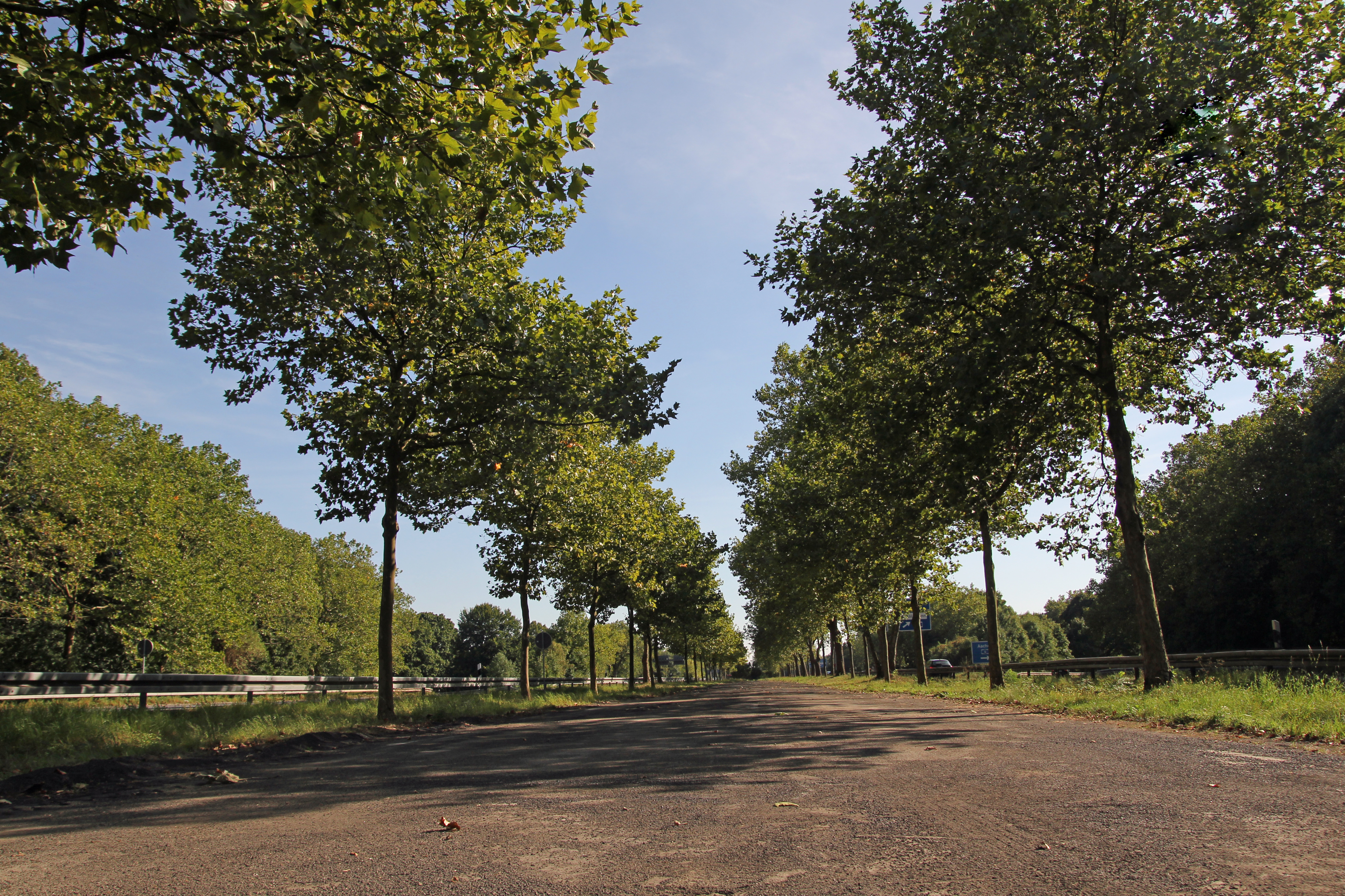 1st German Autobahn in Bonn